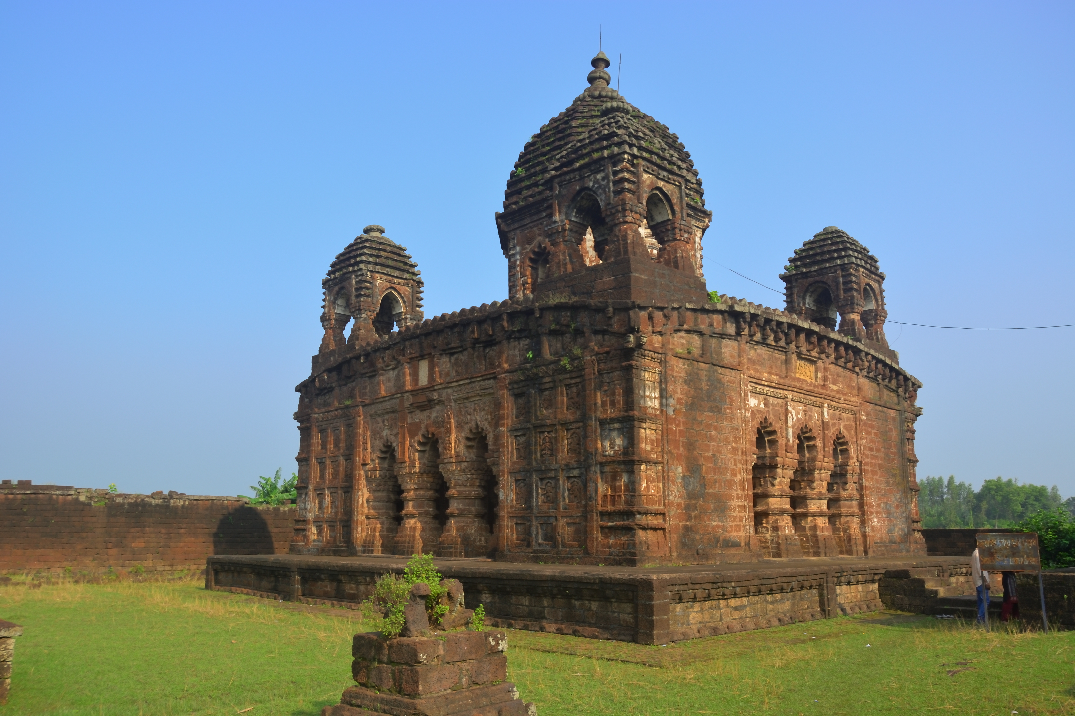 Gokulchand Temple in Gokulnagar, Bankura is possibly the largest temple of Bankura district in West Bengal.